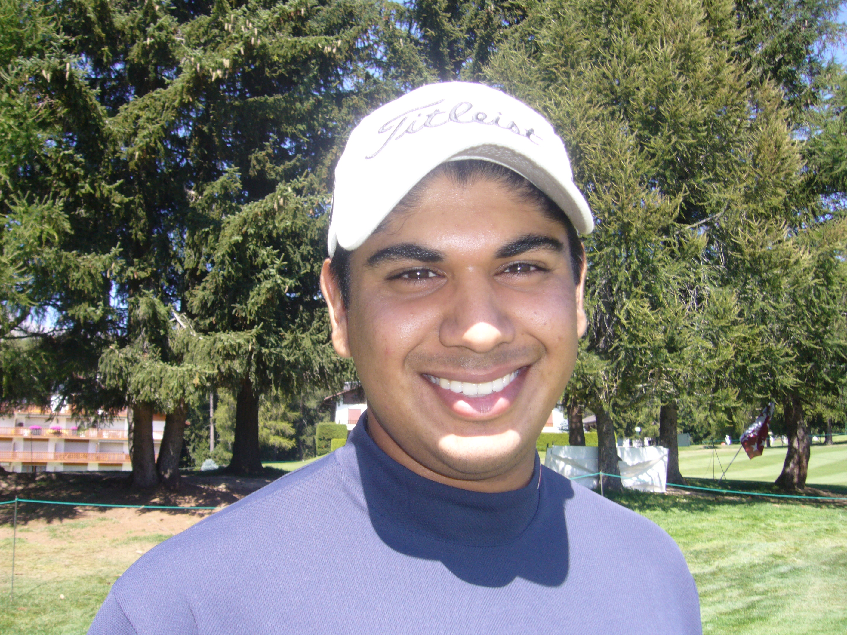 Bhullar, orofessional golfer from India, at European Masters in Crans